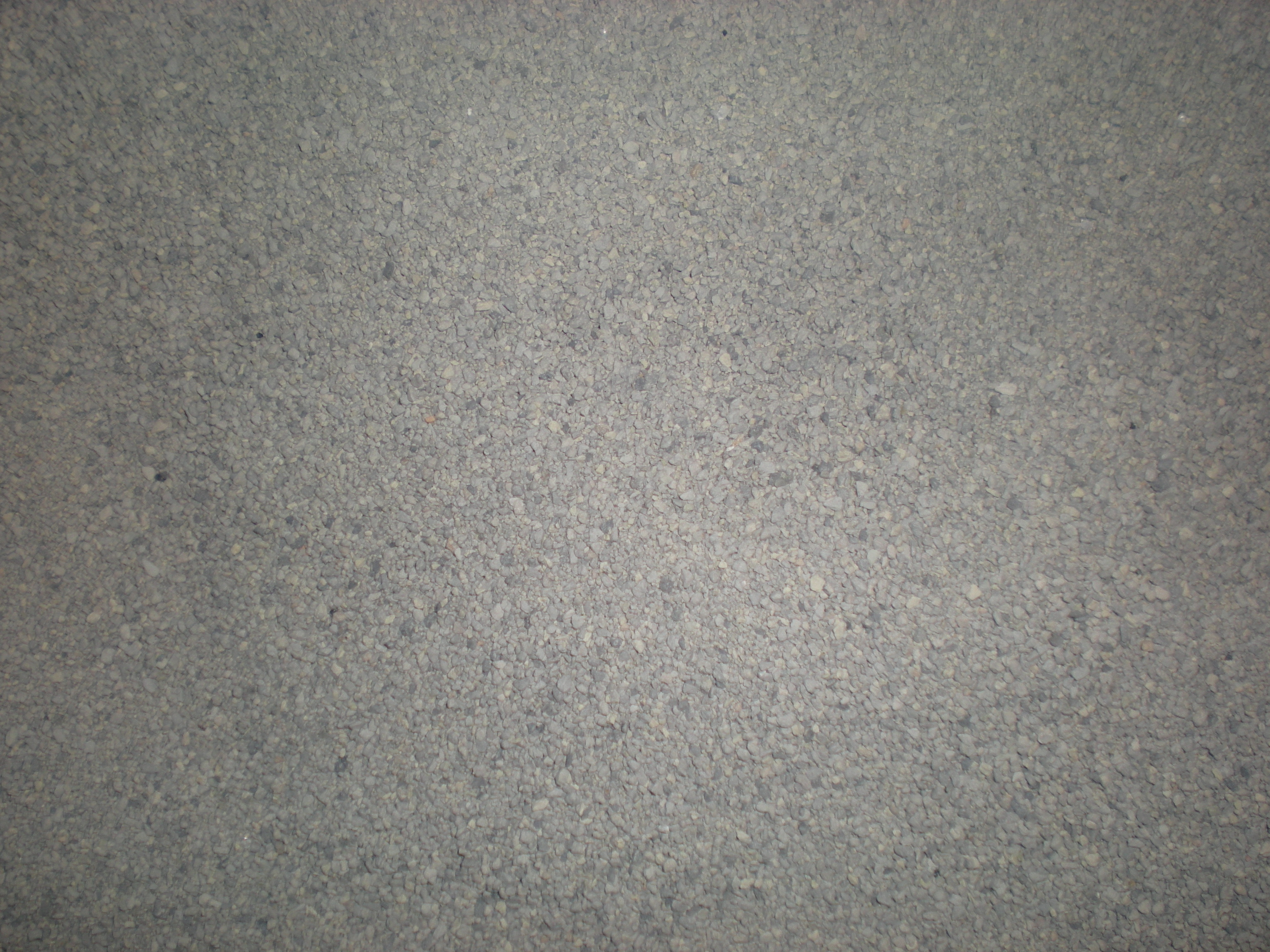 Cat litter in box